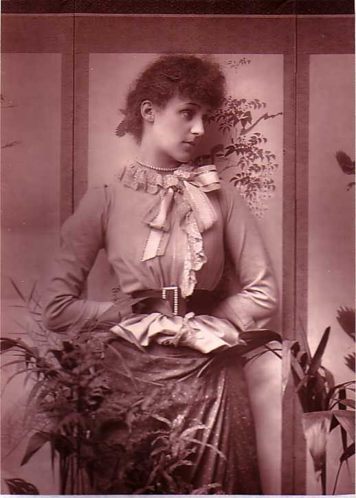 Portrait of Violet Manners, Marchioness of Granby (1856-1937), Woodburytype, 9.7 x 7.1 in (247 mm x 180 mm)